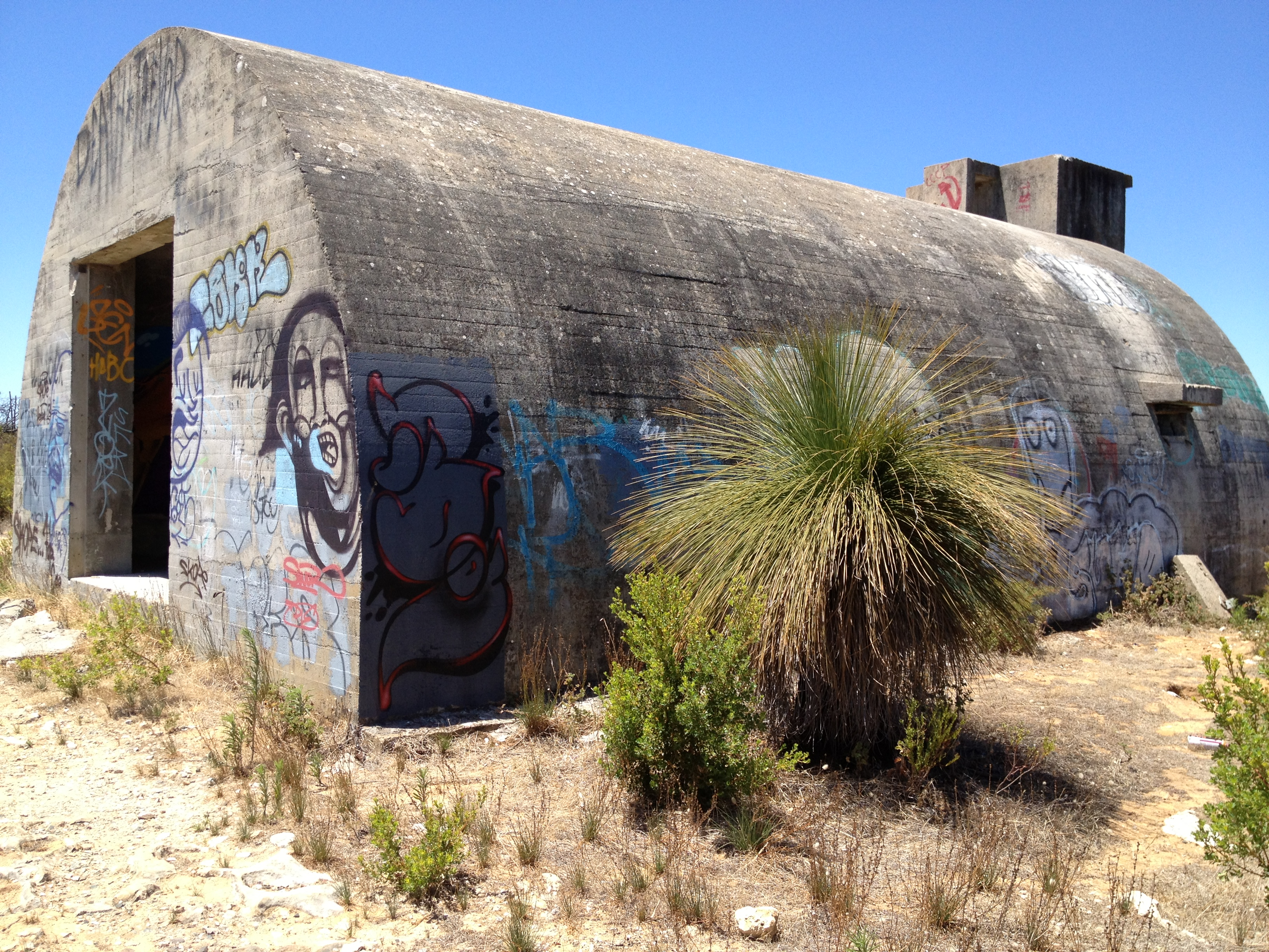 Radar bunkers located in Yanchep, used by the RAAF in WW2.